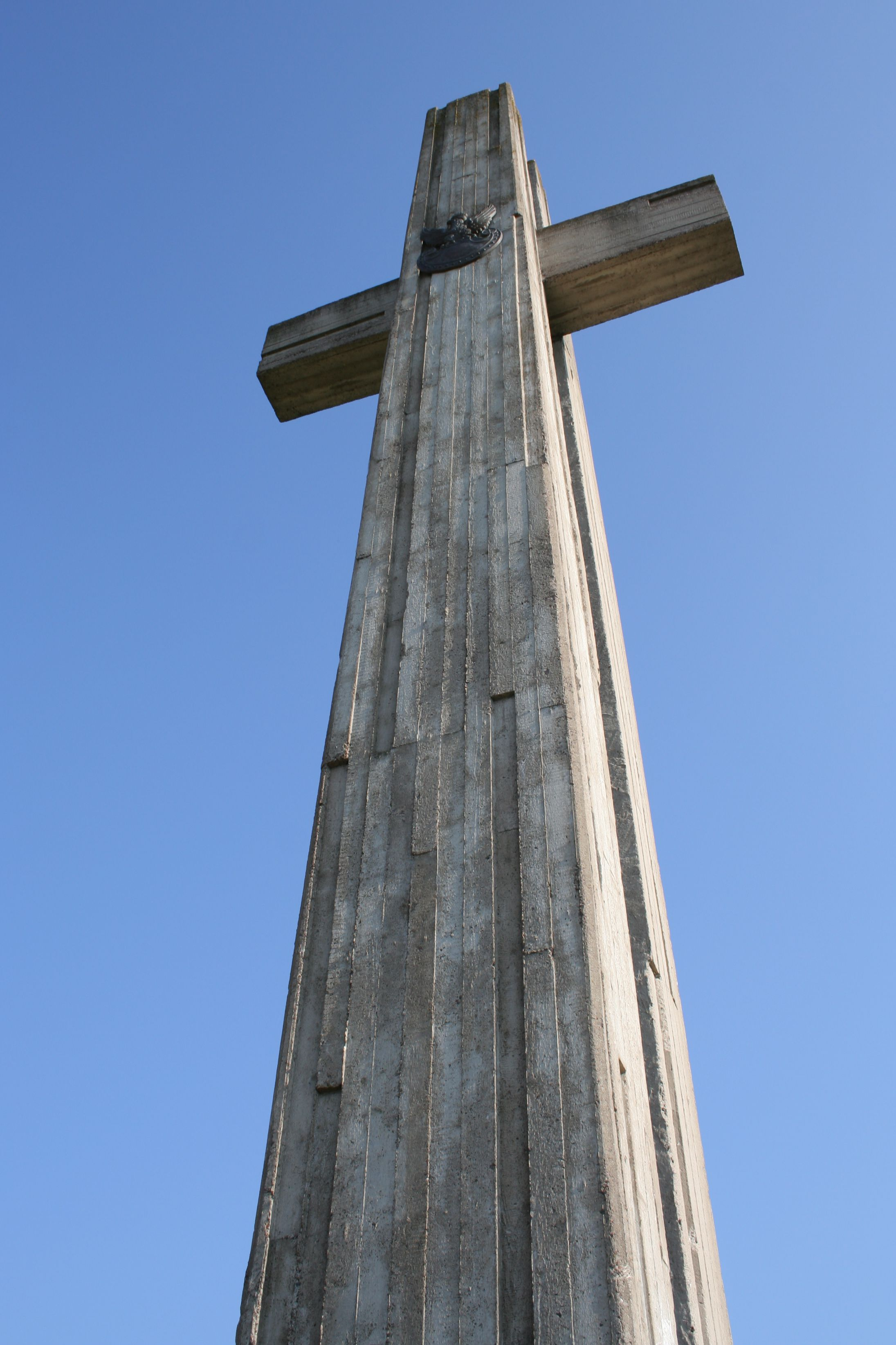 Cross in memory of the fallen Polish soldiers, sculptor Romuald Gibovsky, architect Vanda Baulina.